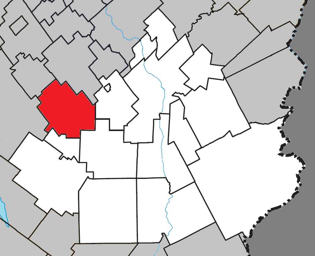 Location of Saint-Éphrem-de-Beauce, Quebec within Beauce-Sartigan Regional County Municipality.